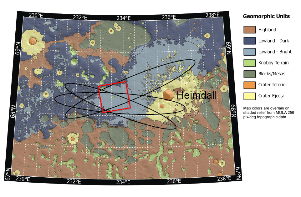 Proposed Phoenix landing ellipses in Vastitas Borealis.